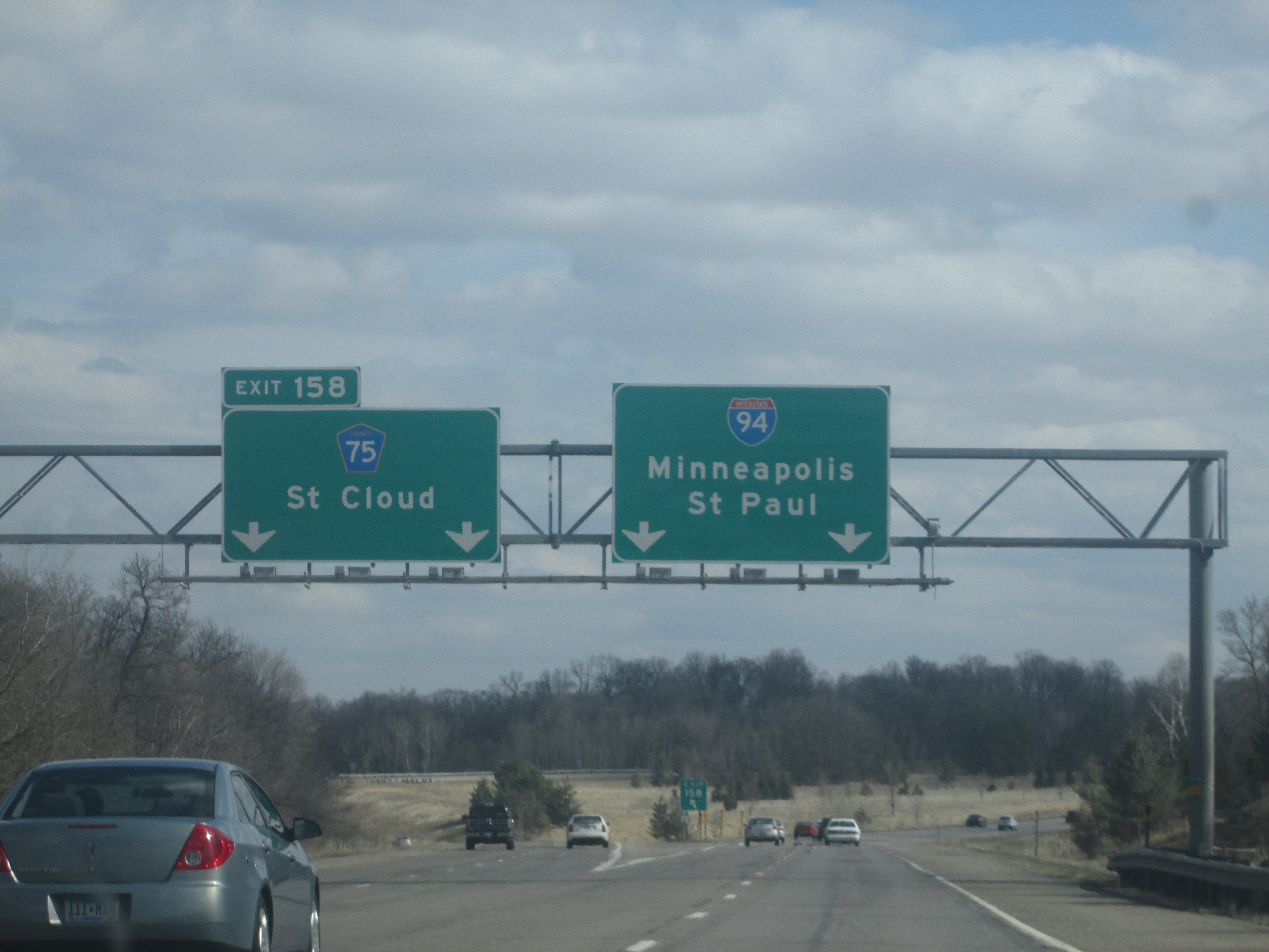 The interchange between Stearns County Road 75 and I-94 / US 52 in Saint Cloud, Minnesota.